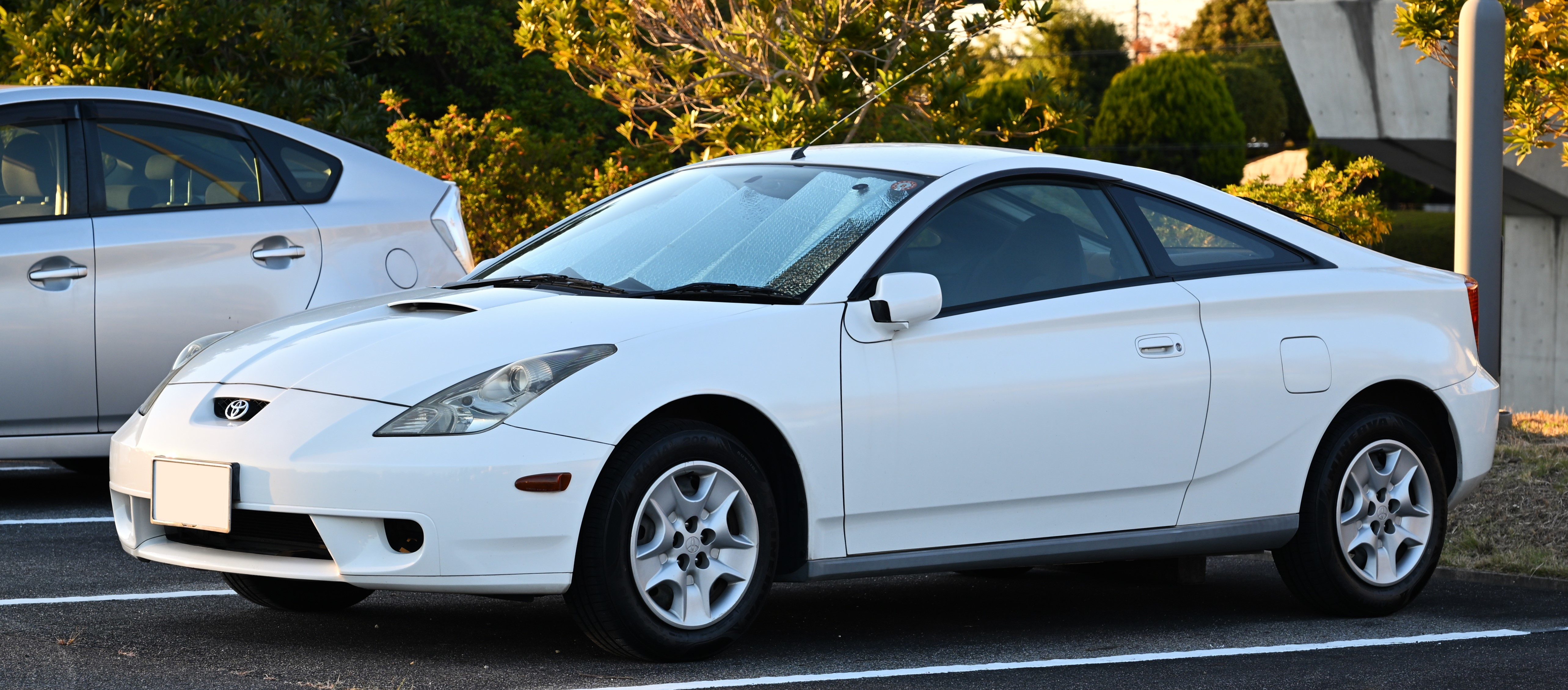 Toyota Celica SS-I (ZZT230)